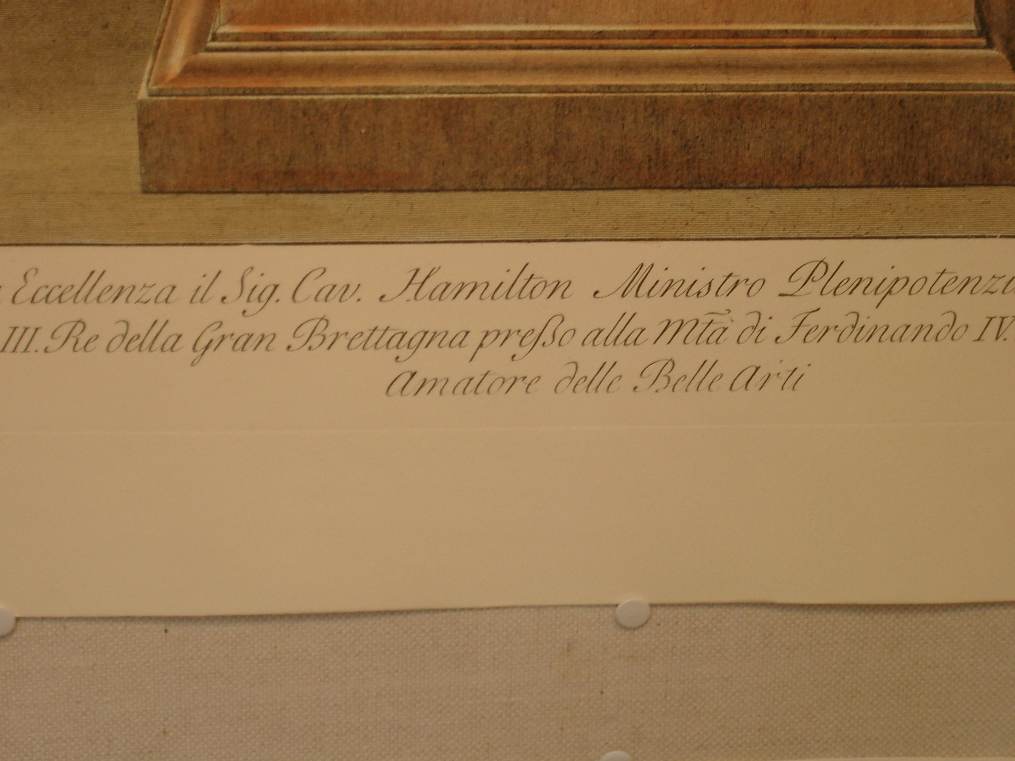 photo by author picture made in Venice in shop window 2005 cropped version: Image:PressoAlla.JPG